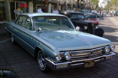 1962 Buick Electra 225 sedan. Wheels and mirrors are not factory, but four ventiports on side of fender were unique to Electra.